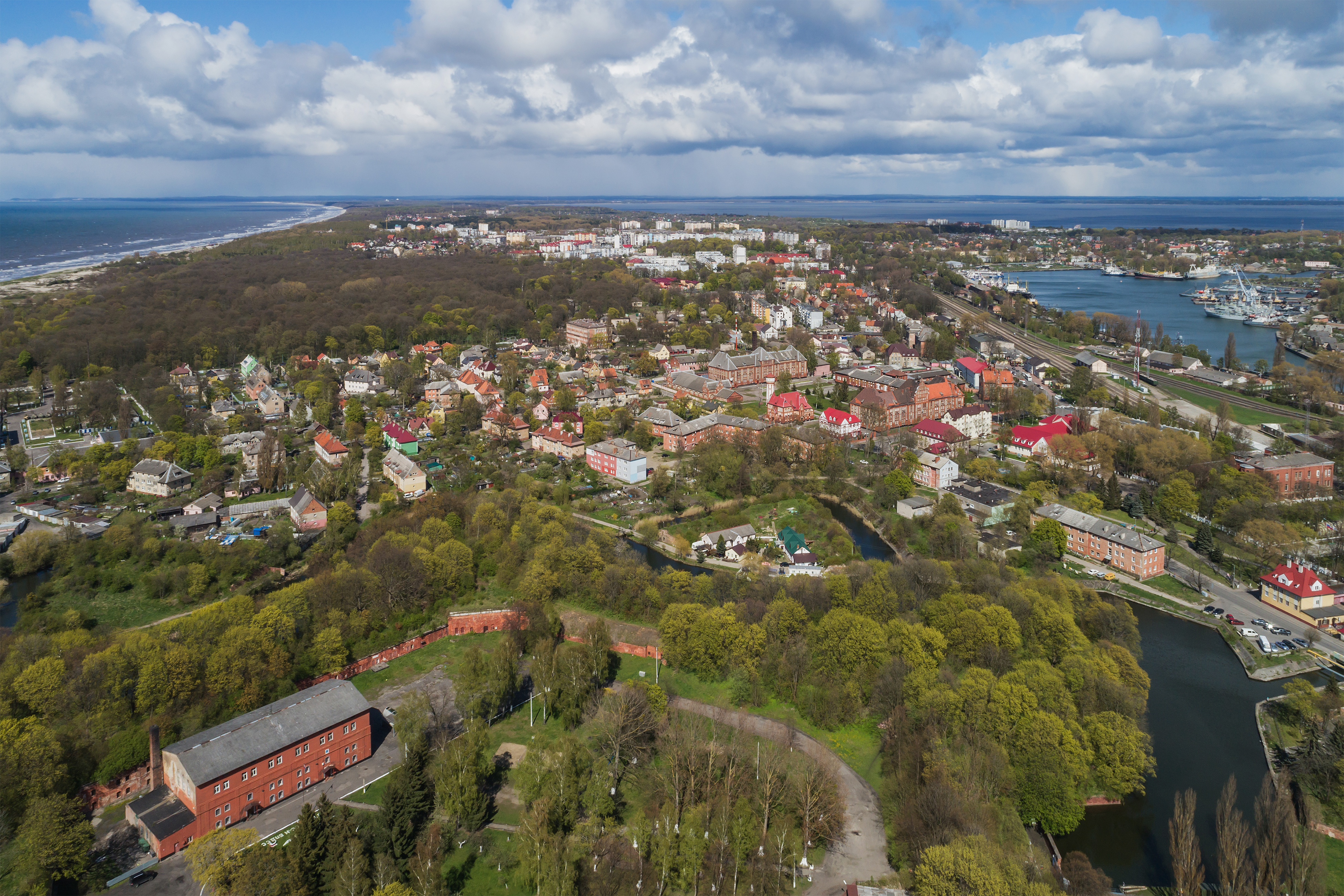 Aerial photo of Baltiysk formerly Pillau / Kaliningrad Oblast (Russia).